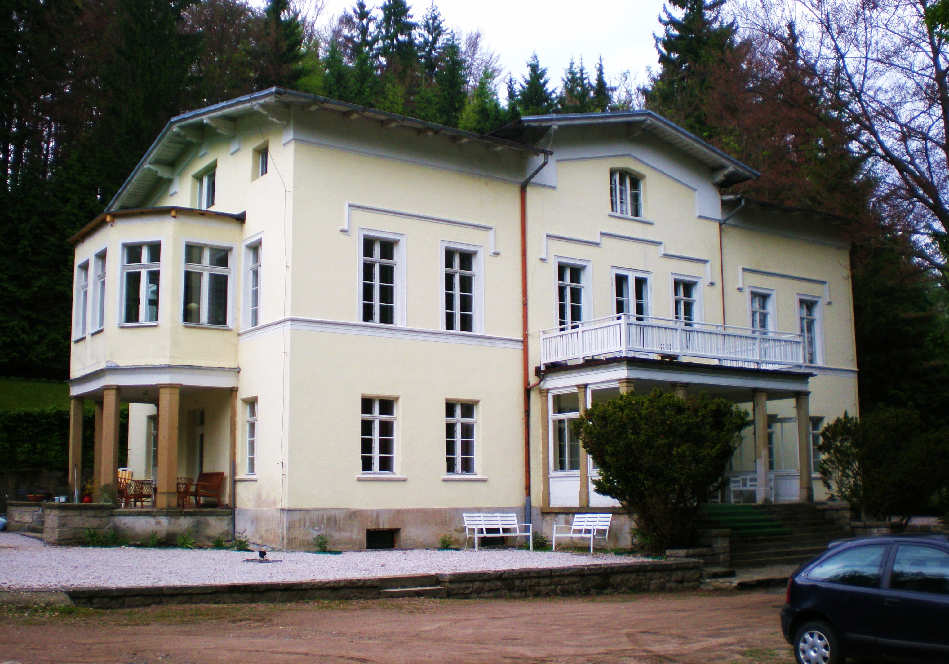 Palace on Beaver River